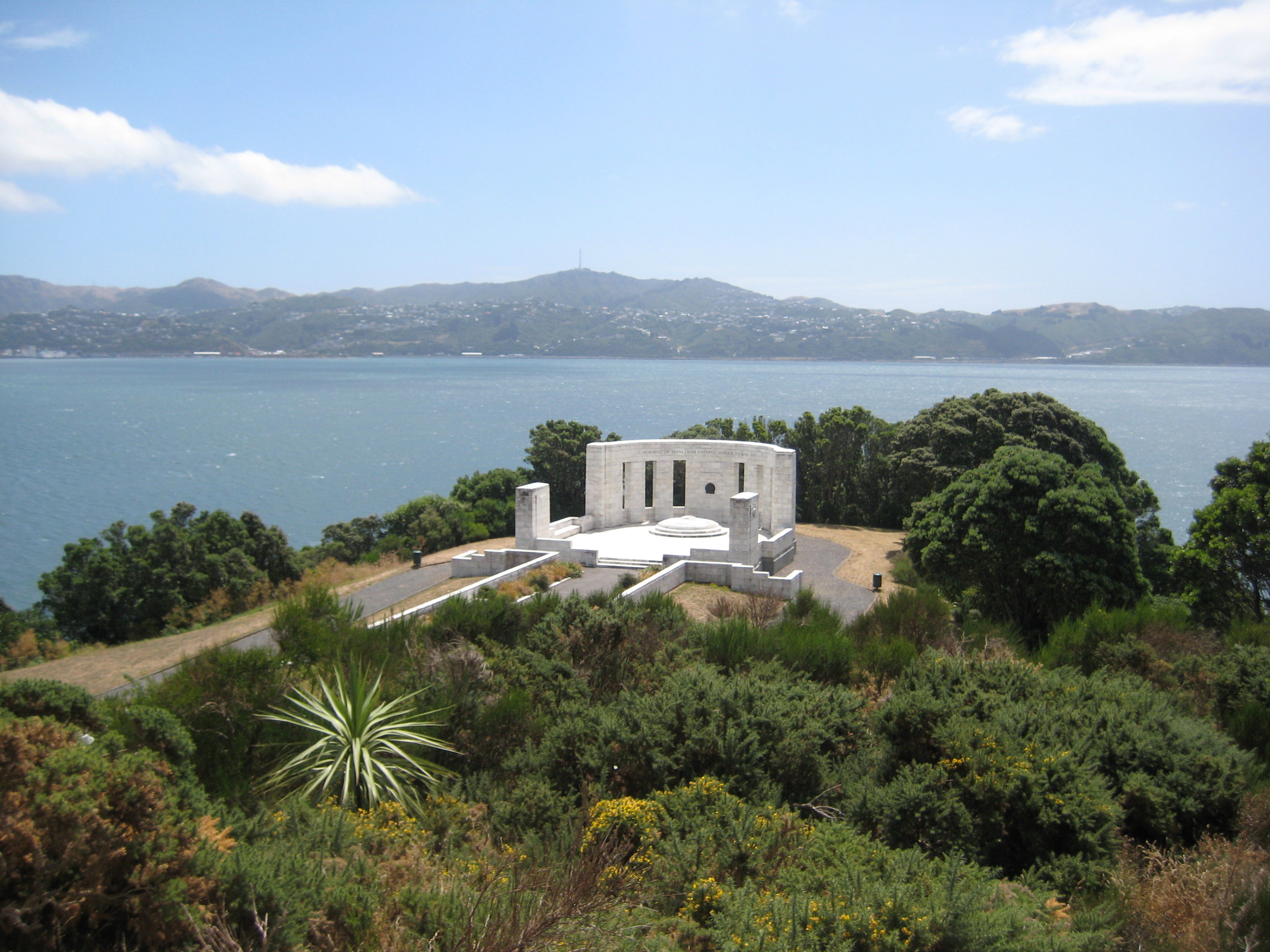 The Massey Memorial is the mausoleum of New Zealand Prime Minister William Massey. Located in Wellington, New Zealand.